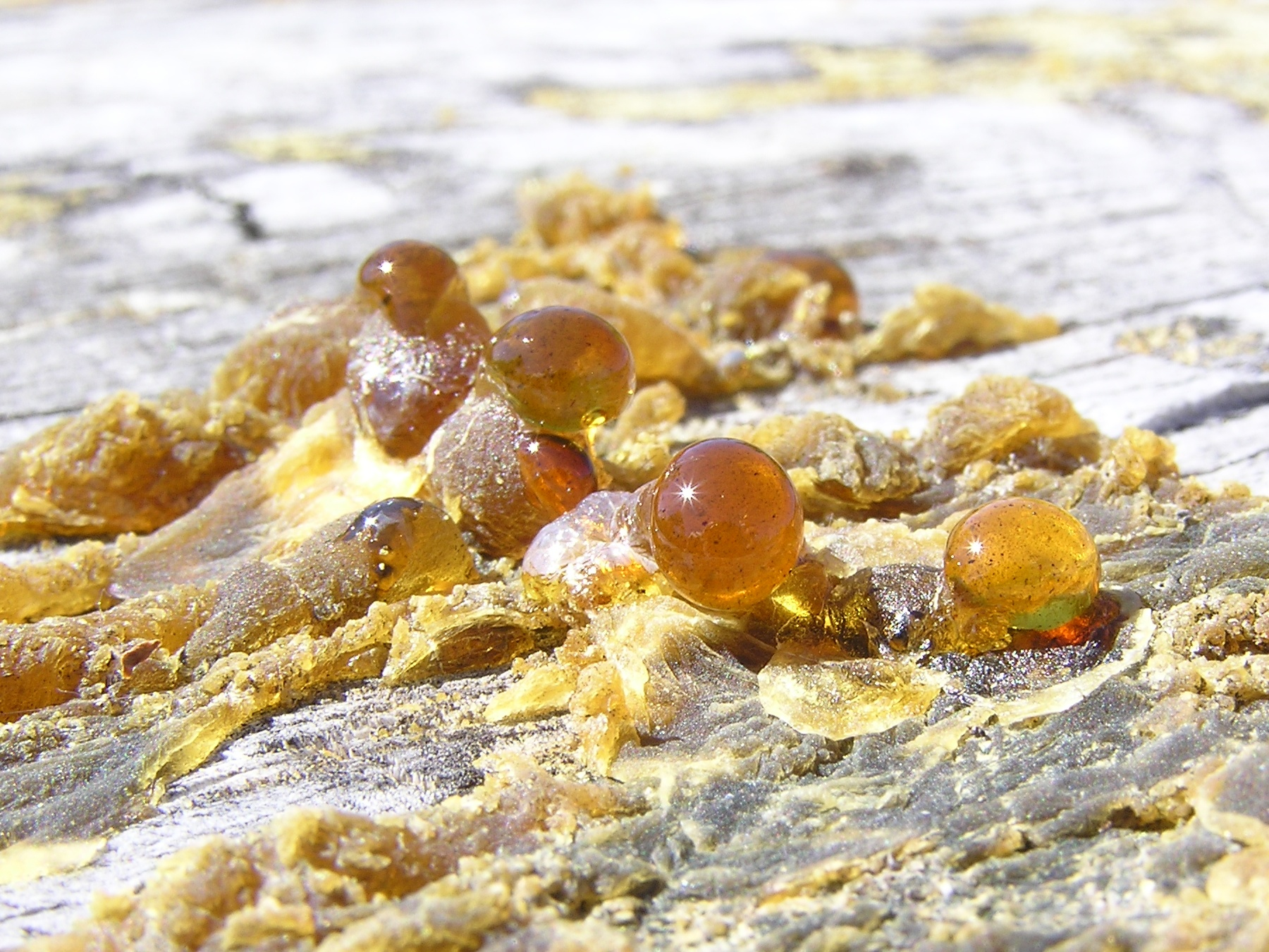 Resin still bubbles from Pinus radiata tree stump seven years after it was cut down.